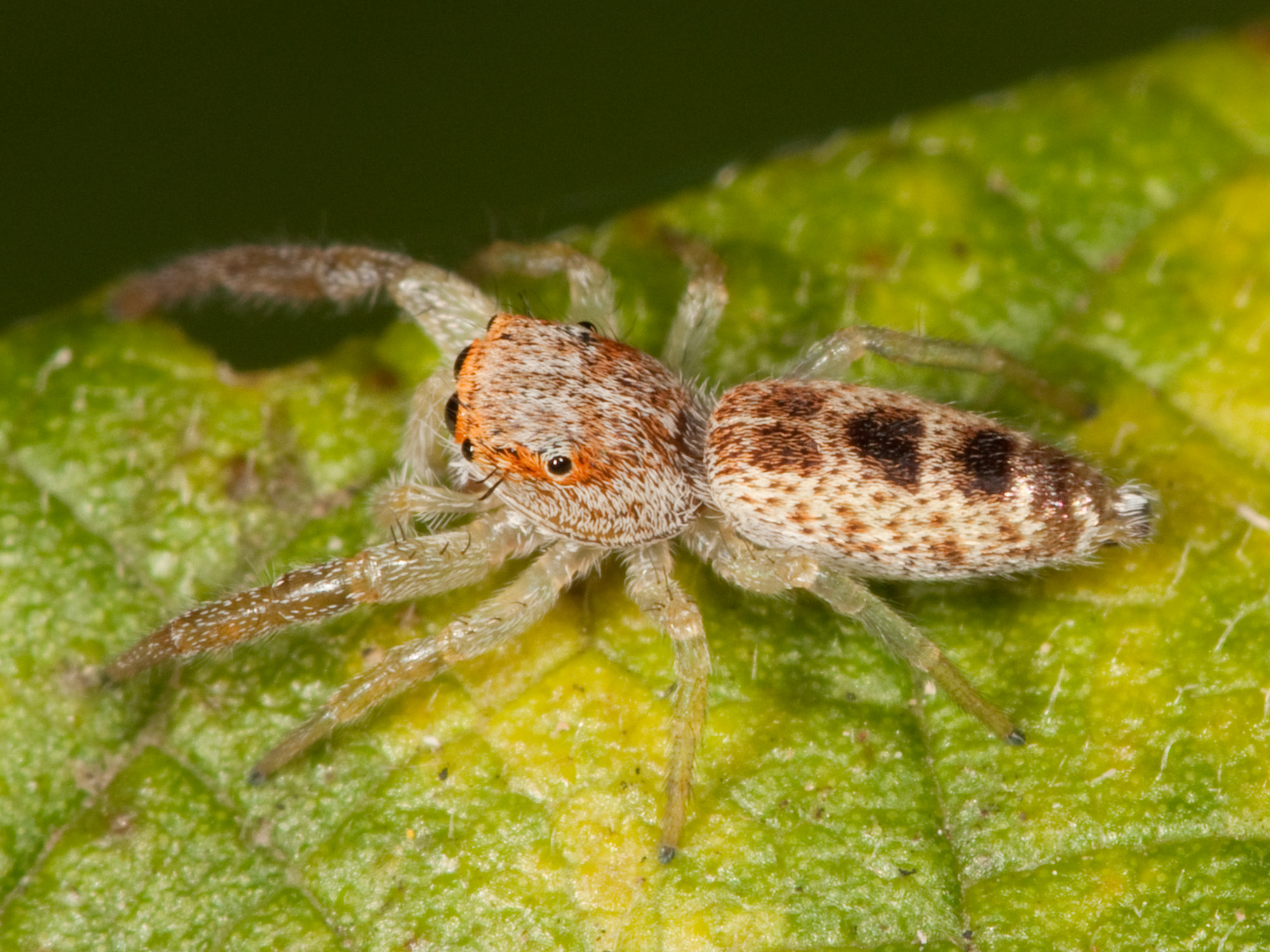 Hentzia jumping spider (probably immature Hentzia mitrata or Hentzia palmarum male) found at Shelby Park in Nashville, Tennessee.